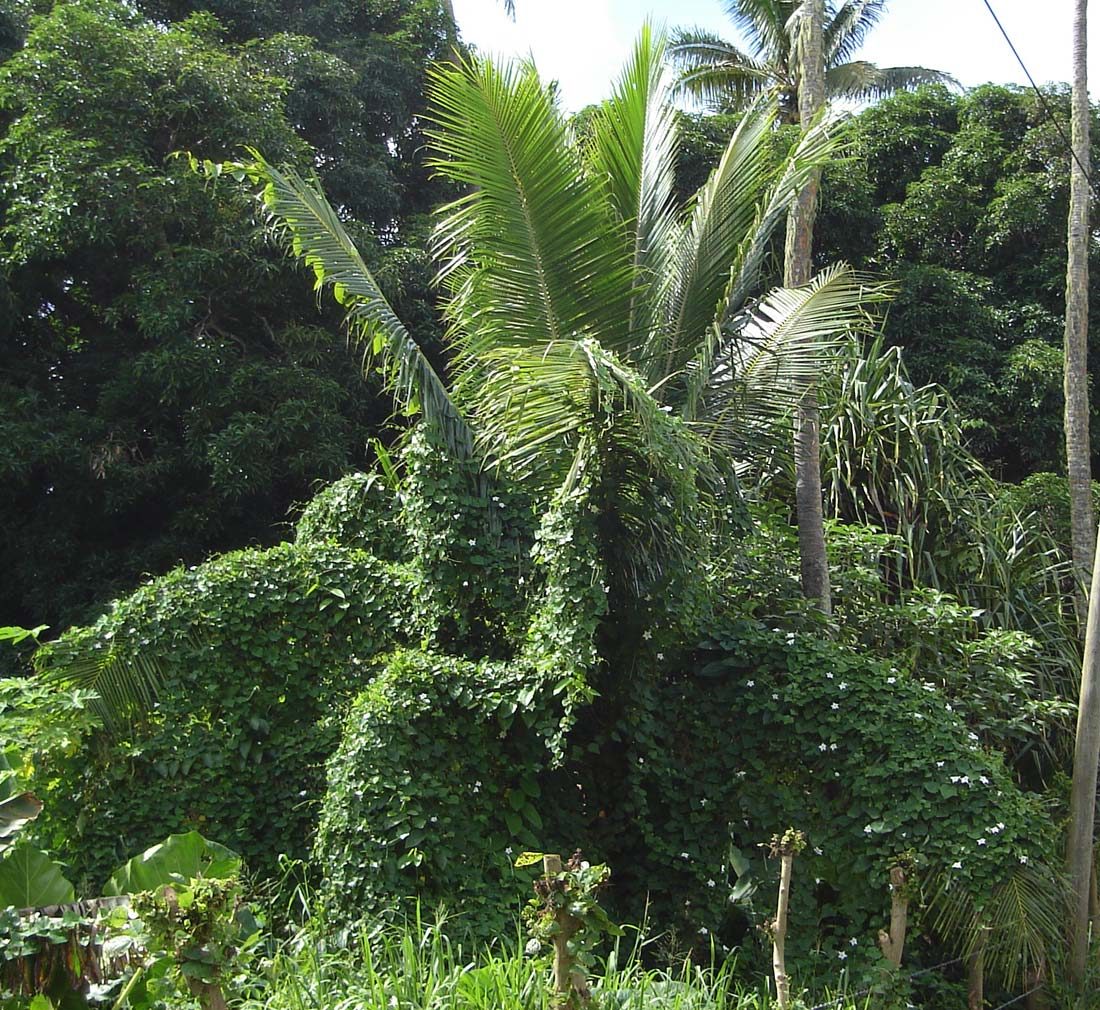 Coccinia grandis smothering a young coconut tree on Tongatapu, Tonga